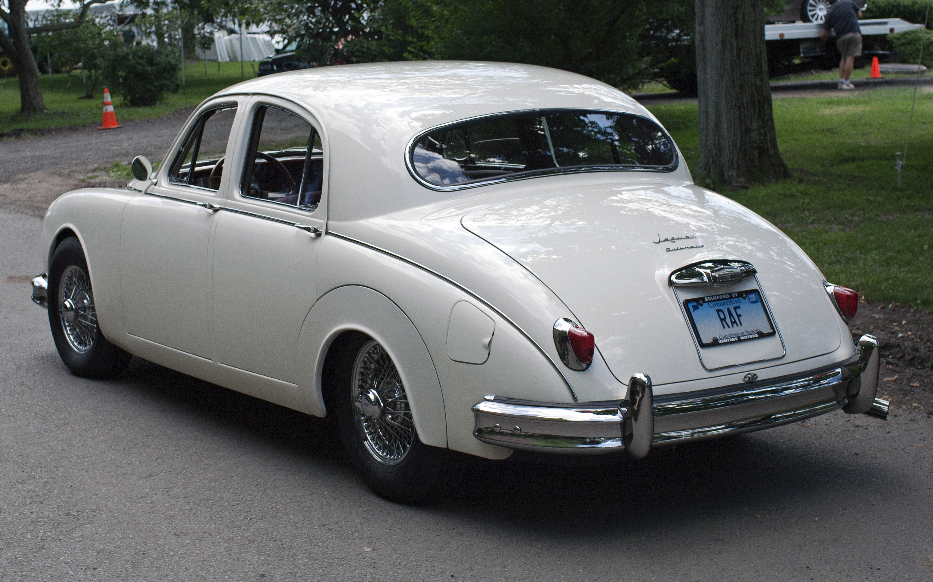 1957 Jaguar 3.4 Litre Automatic, chassis S986121BW. The three-speed auto has been replaced by a four-speed manual. Plate altered, left the "RAF" portion as it seemed suitable.